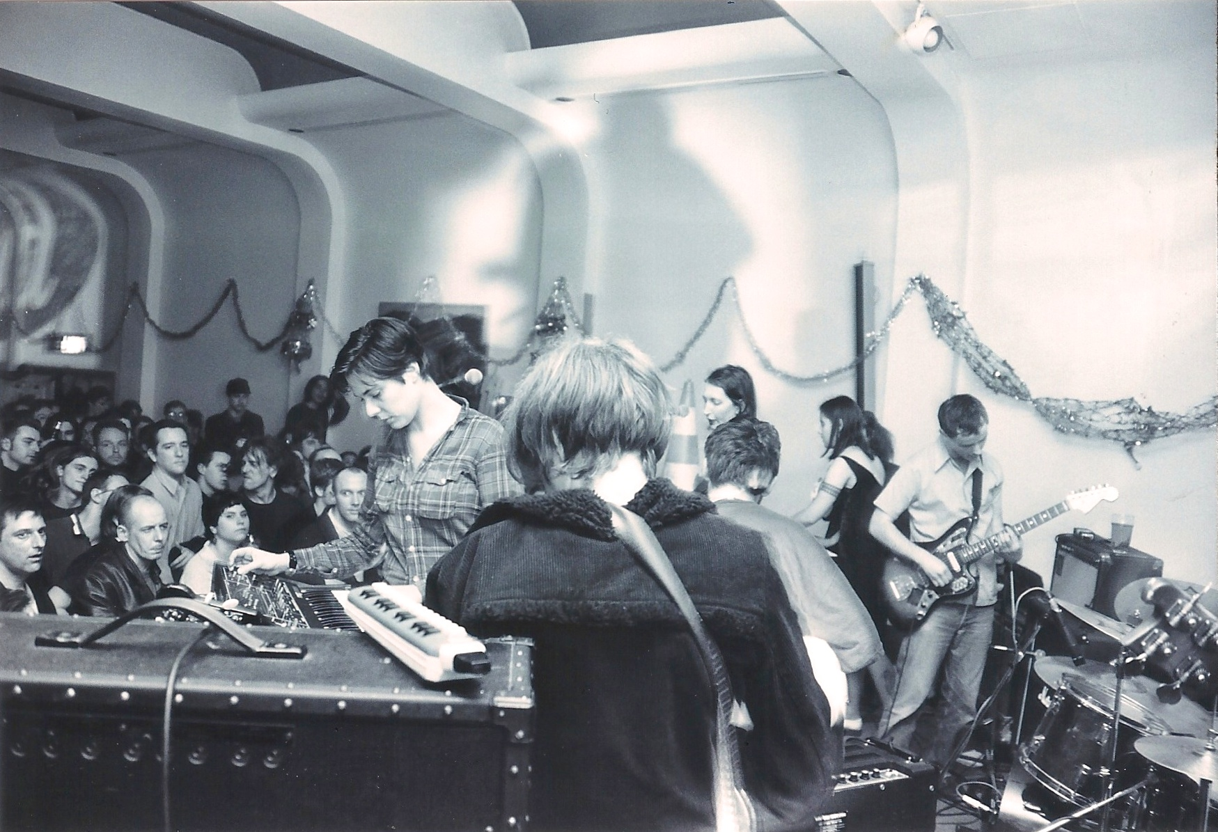 Stereolab, the Lizard / Sausage Machine Christmas Party Camden Irish Centre London 1994 the Lizard / Sausage Machine Christmas Party 1994 photo set. Neate photos facebook page. More neate photos.